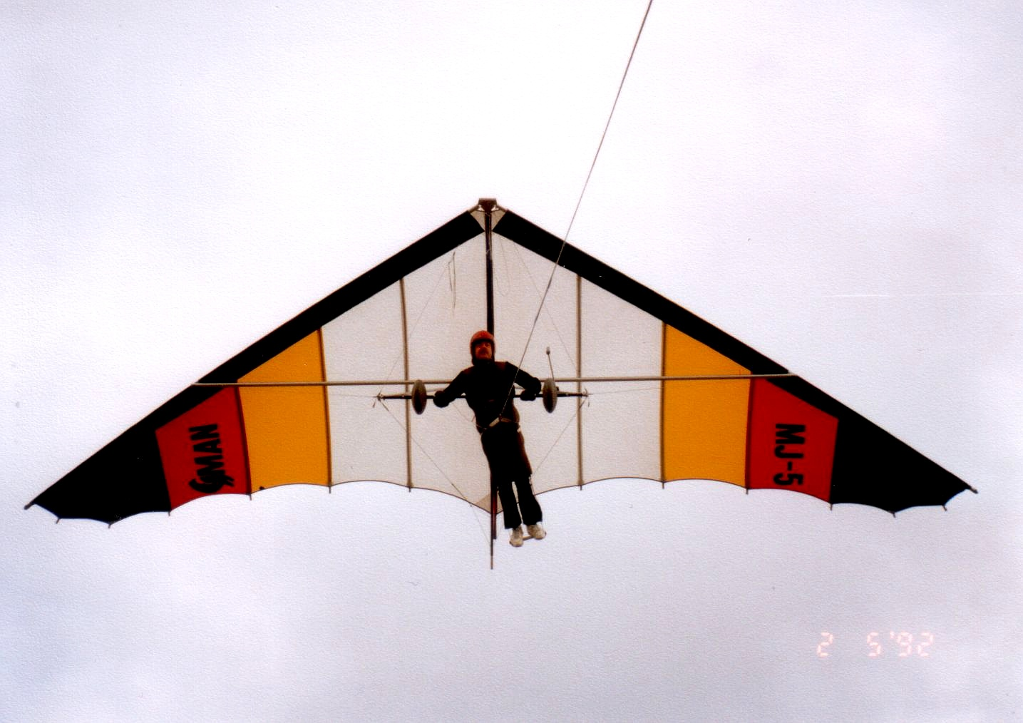 A Birdman MJ-5 hanglider on tow